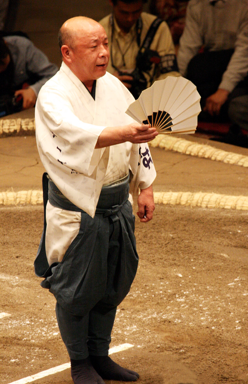 Hideo (Kiriyama stable), a tate-yobidashi (highest-rank announcer), during the May 2008 tournament.